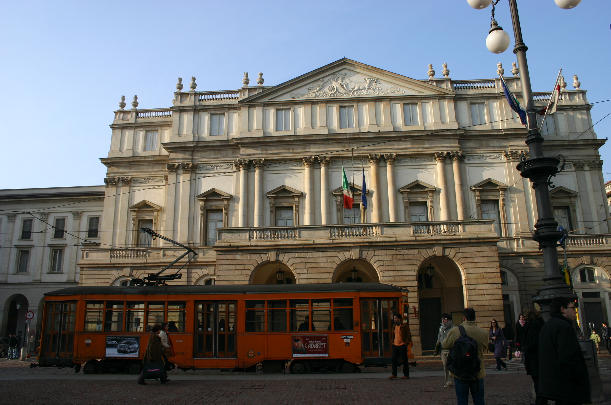 Milan, Italy: the "Teatro alla Scala" Opera house in "Piazza della Scala" square. Picture by Giovanni Dall'Orto, January 20 2007.